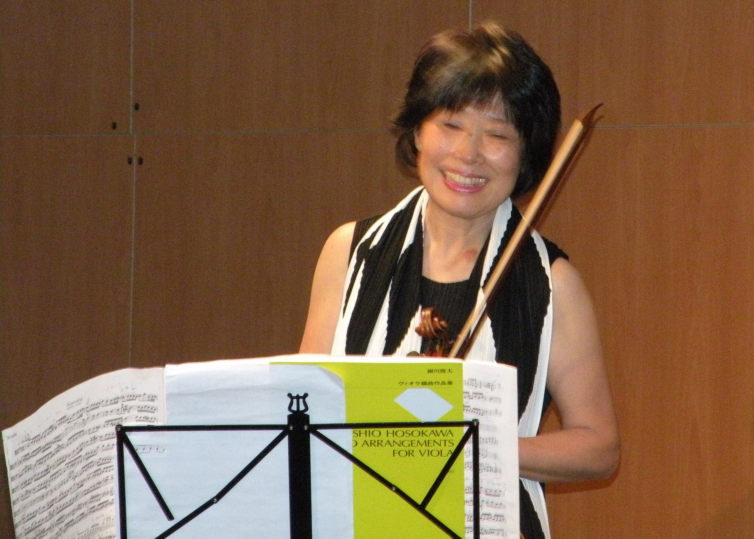 Nobuko Imai, japanese violist, on 1st February 2009, during La Folle Journée in Nantes.